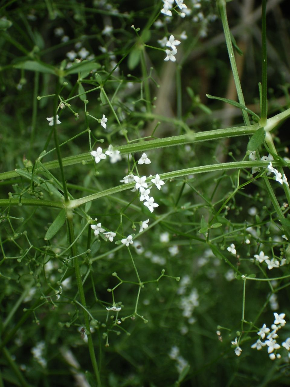 by Stefan Goen, Uckermarck (Germany), 06/2005